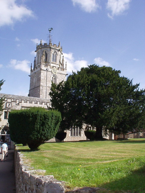 St Andrew's Church, Colyton. The Church of St Andrew dates from Norman times. Its lantern tower is one of only three in the country and was used to guide ships up the River Axe Estuary. The interior of the church is well worth a visit.